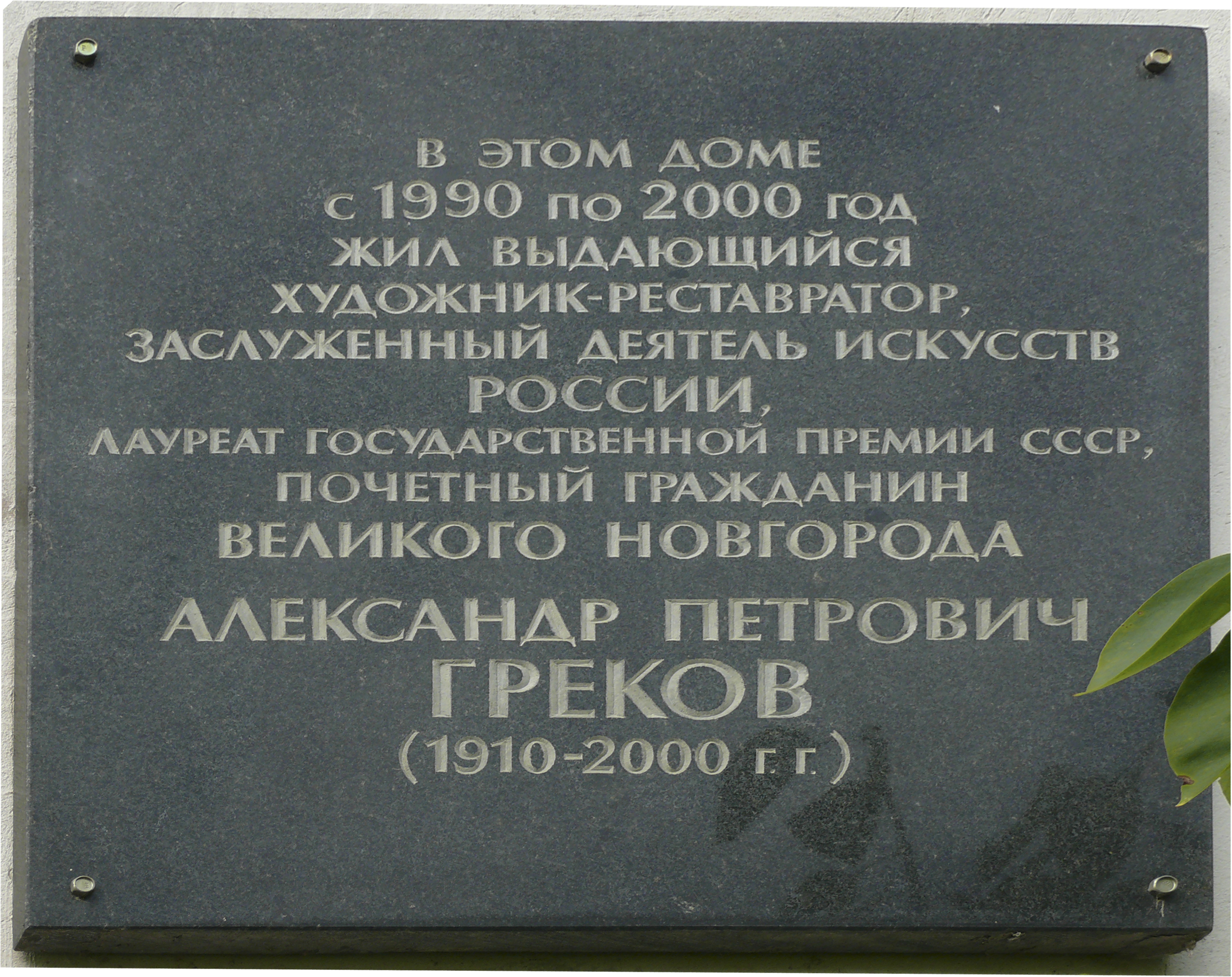 Memory plaque with the name of Alexander Grekov in Veliky Novgorod, Russia